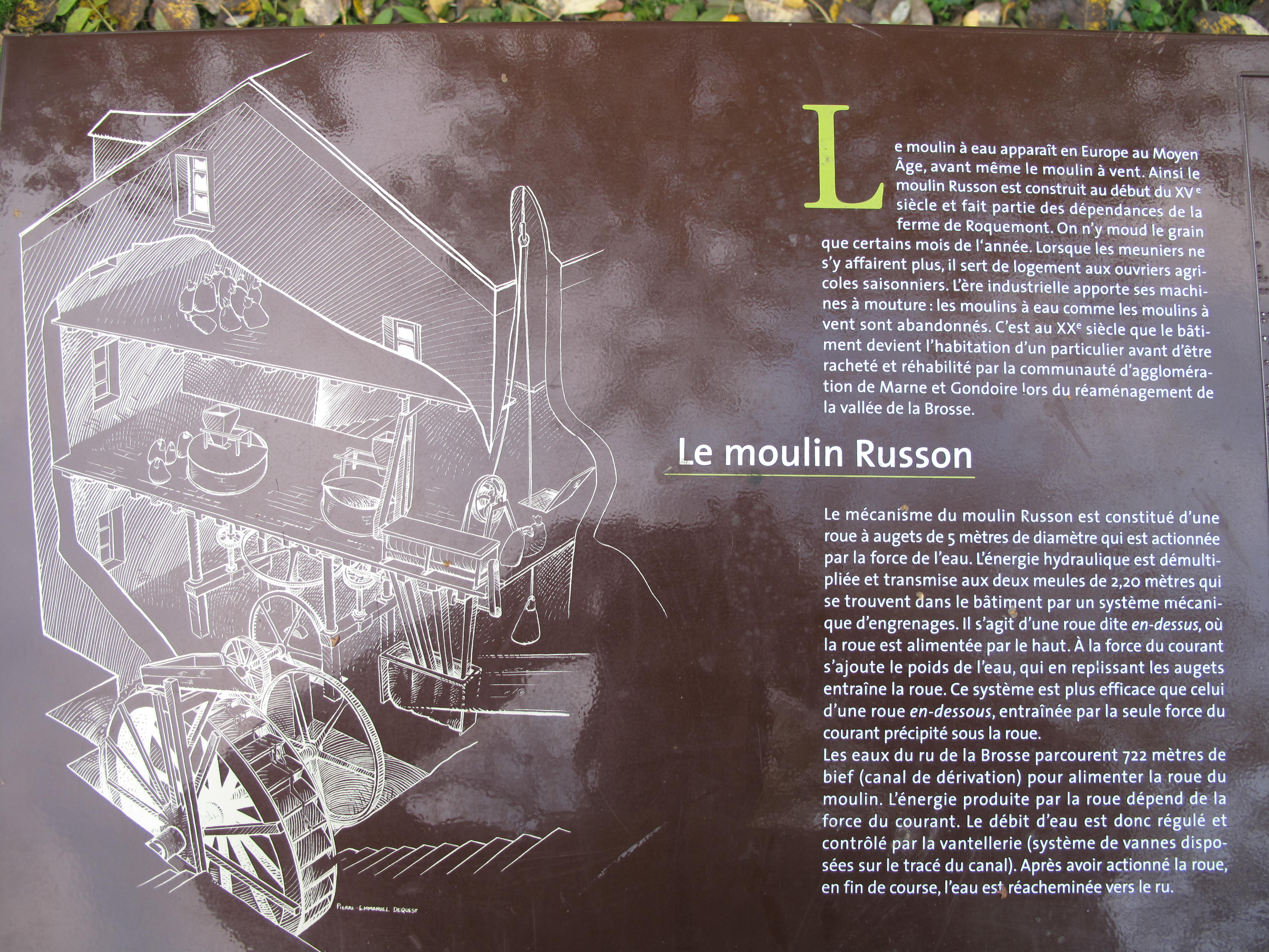 The information plaque of the moulin Russon, Bussy-Saint-Georges, Seine-et-Marne, France.